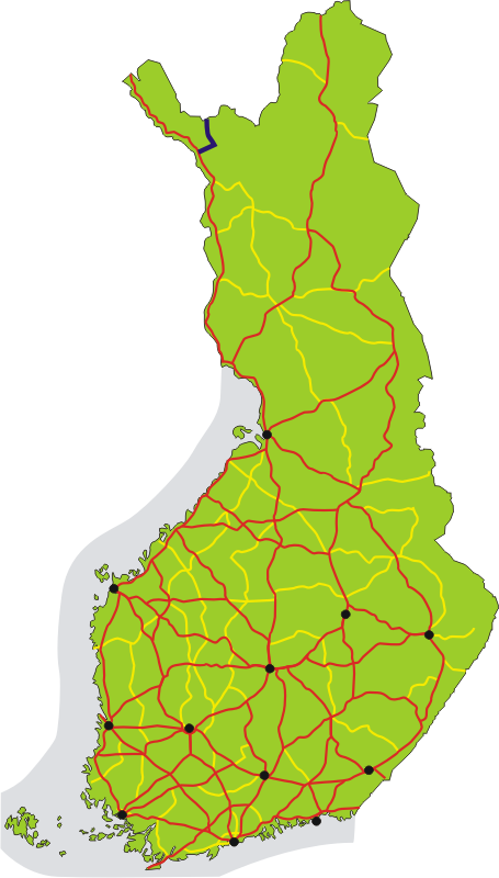 Map of the main road (2nd class) 93 in Finland, shown in dark blue. 1st class main roads (numbers 1–29) are red, other 2nd class main roads (numbers 40–98) yellow. Black dots show the 12 biggest urban areas.